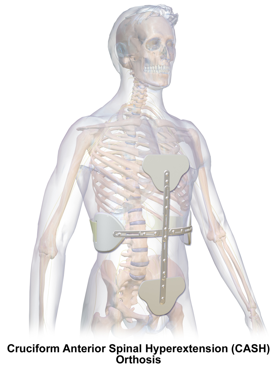 CASH Orthosis. See a full animation of this medical topic.